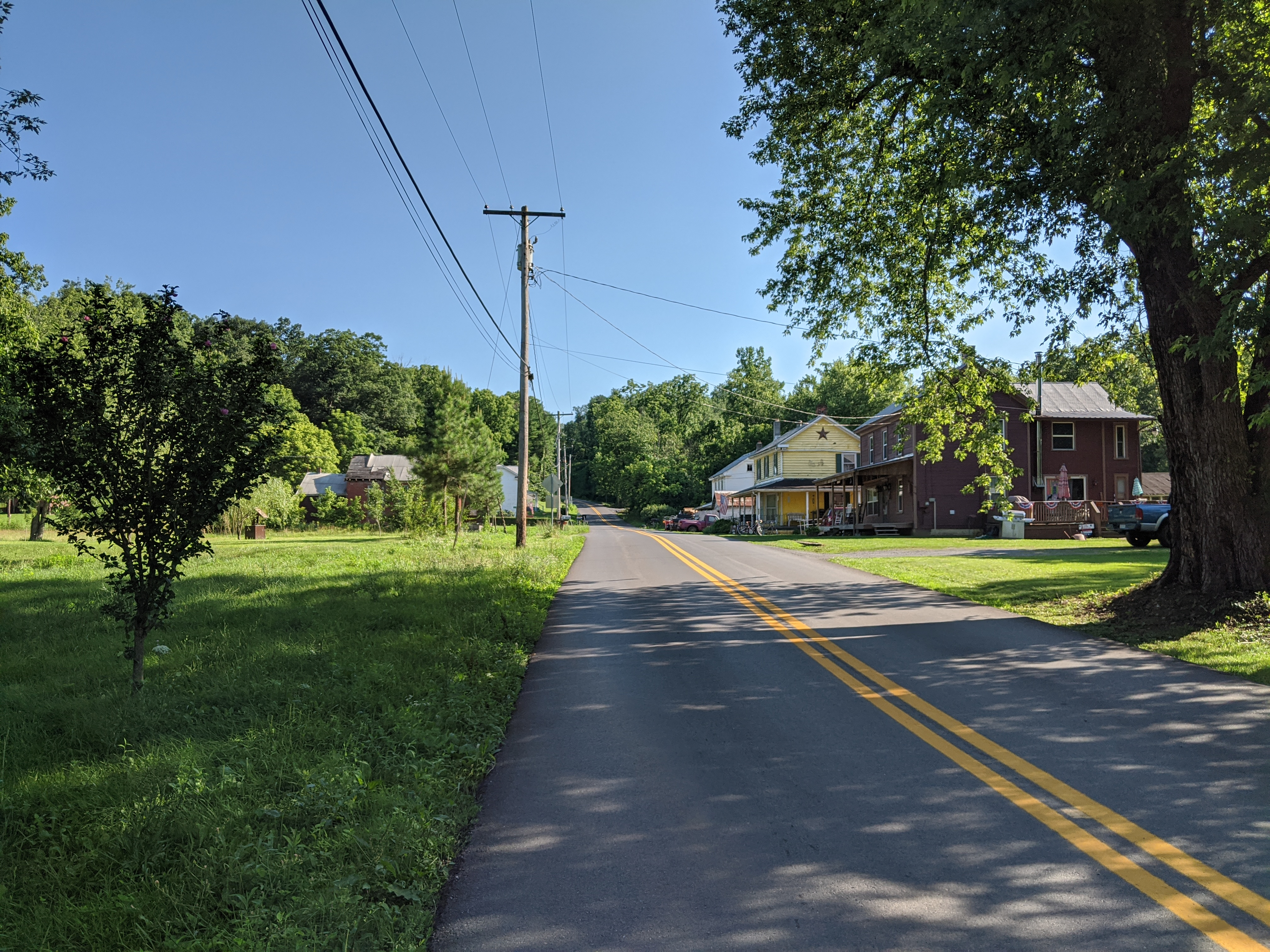 Houses along River Road in Sleepy Creek, Morgan County, West Virginia.